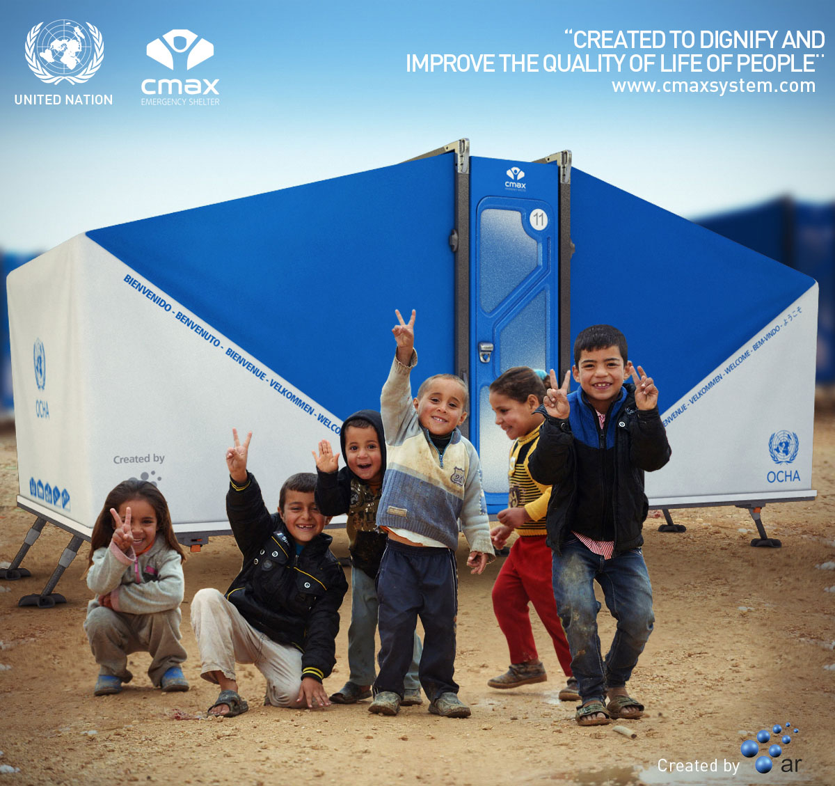 Cmax System refugee camp